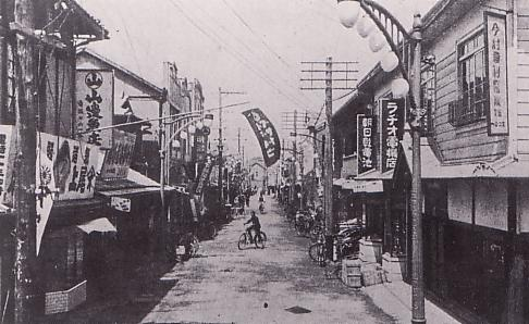 Naka-Cho in Gensan(Wonsan)